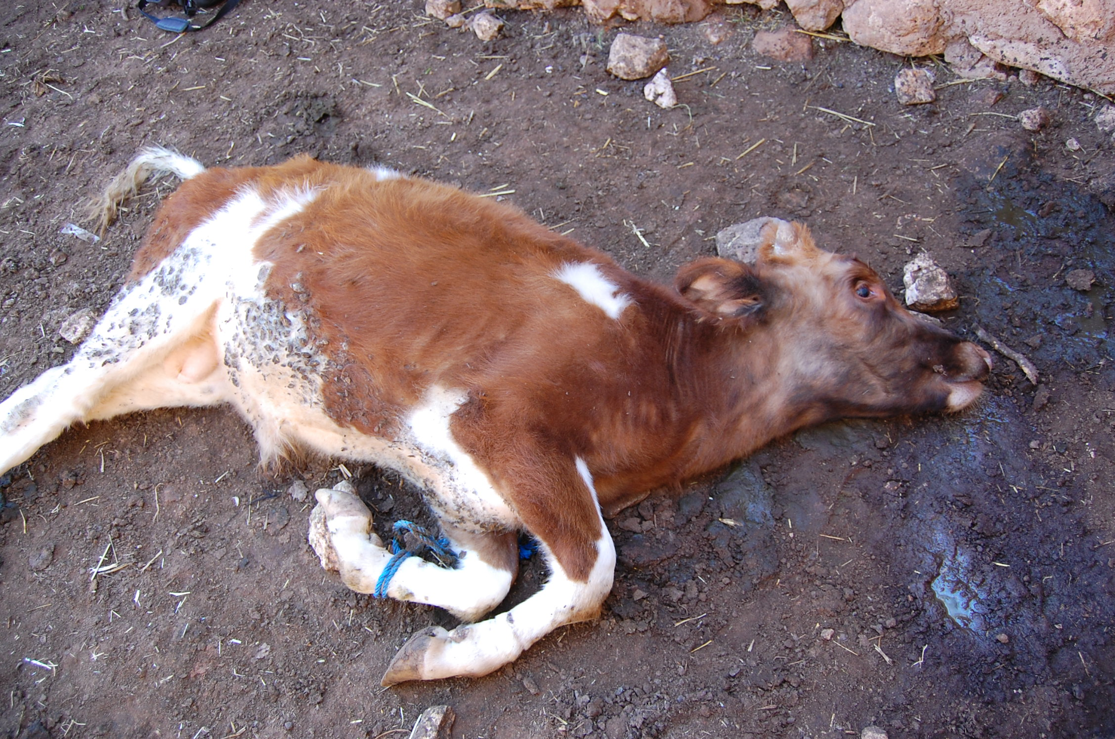 Rose laurel poisoning : died animal; another aving eaten the plant steer is still alive, showing cardiac arrythmia.